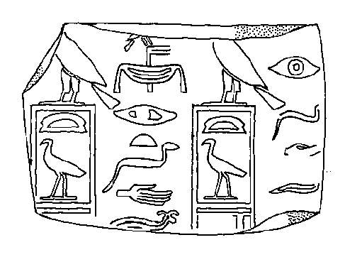 Clay seal of Khaba UC 11755